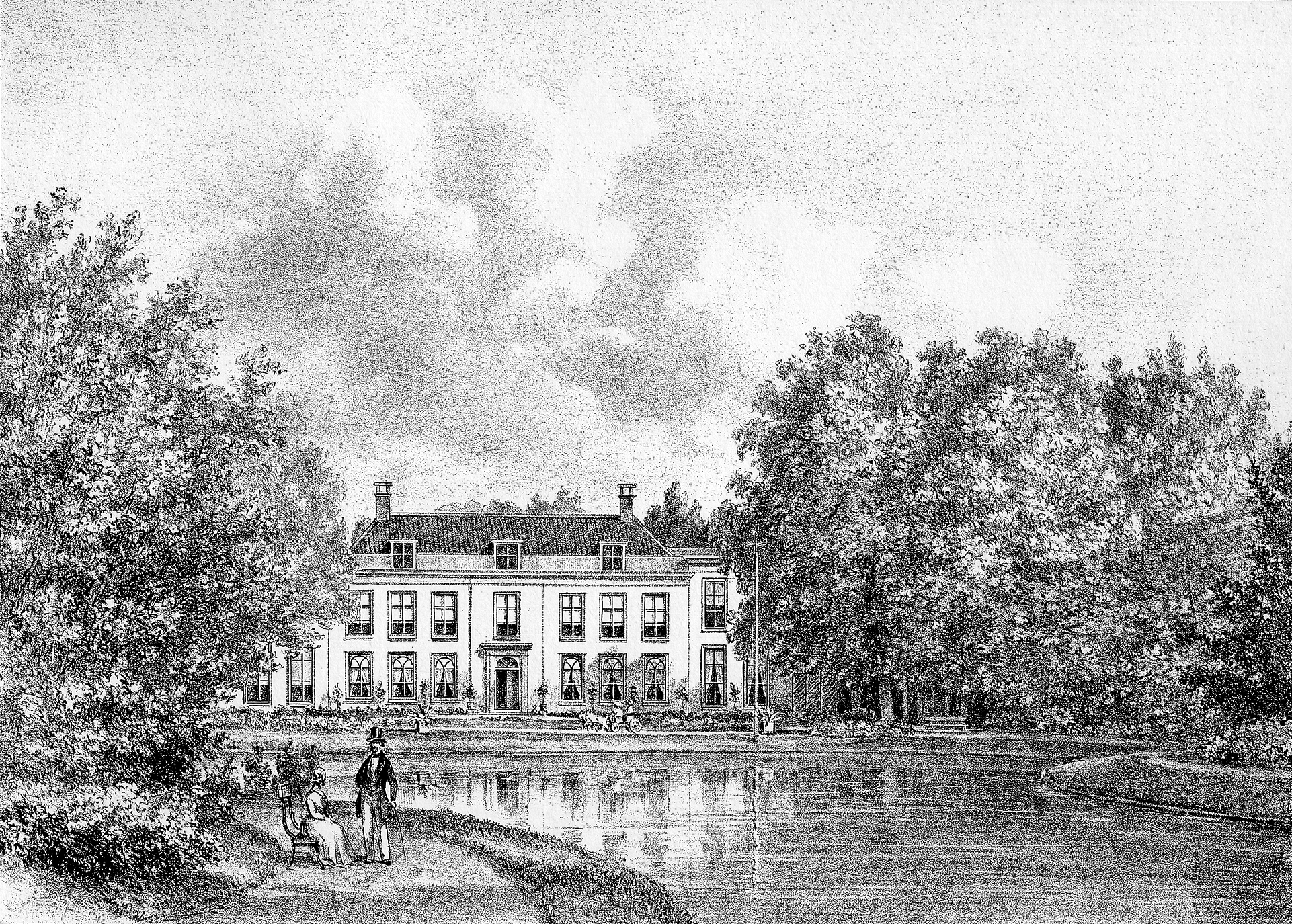 Country estate 'Oosterbeek' in the municipality of Wassenaar near the city of The Hague, The Netherlands.